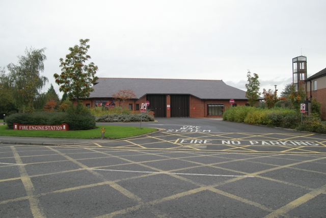 Ormskirk fire station Ormskirk fire station, County Road, Ormskirk, Lancashire.